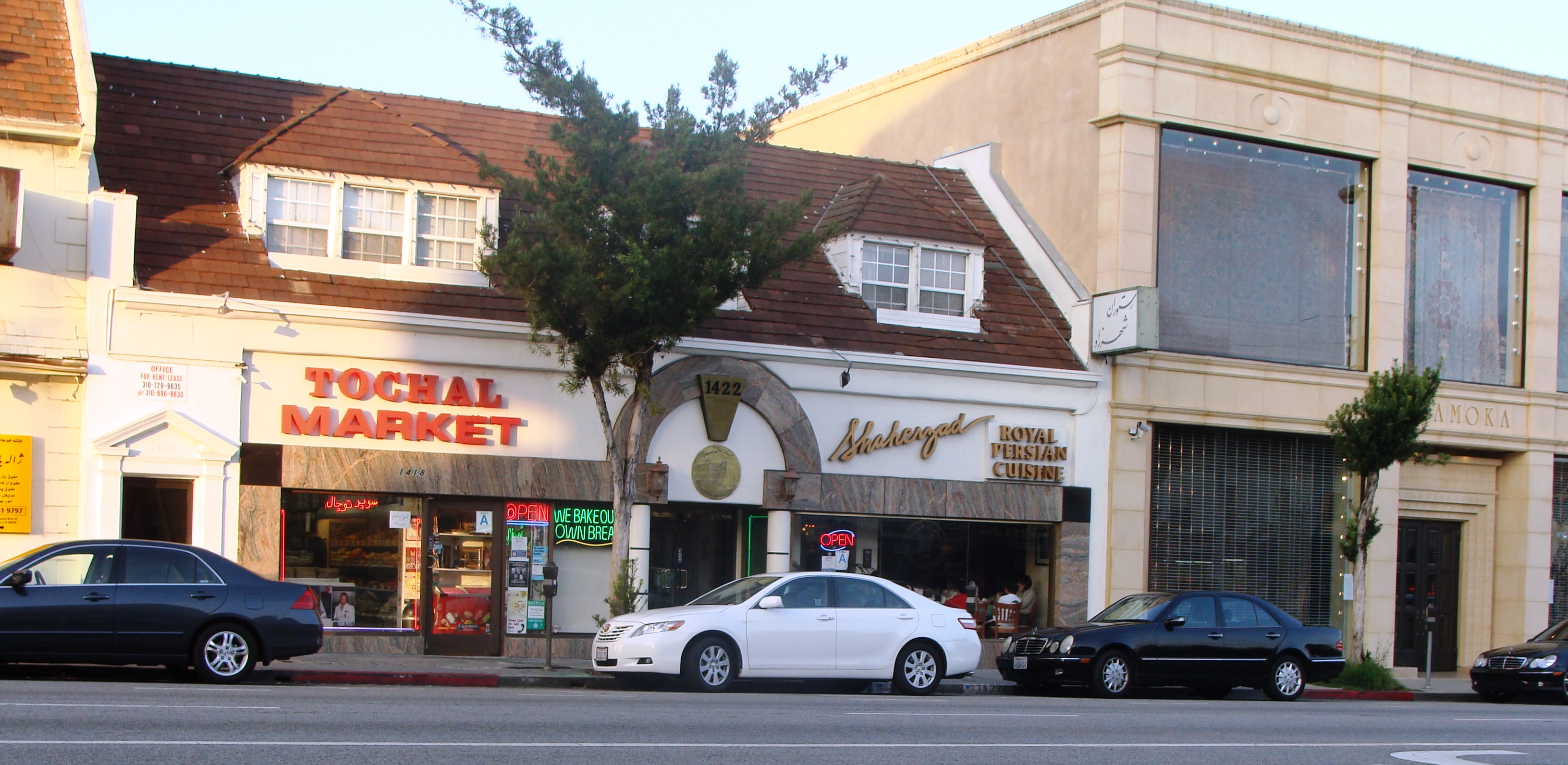 Tehrangeles, Westwood Blvd, Los Angeles.